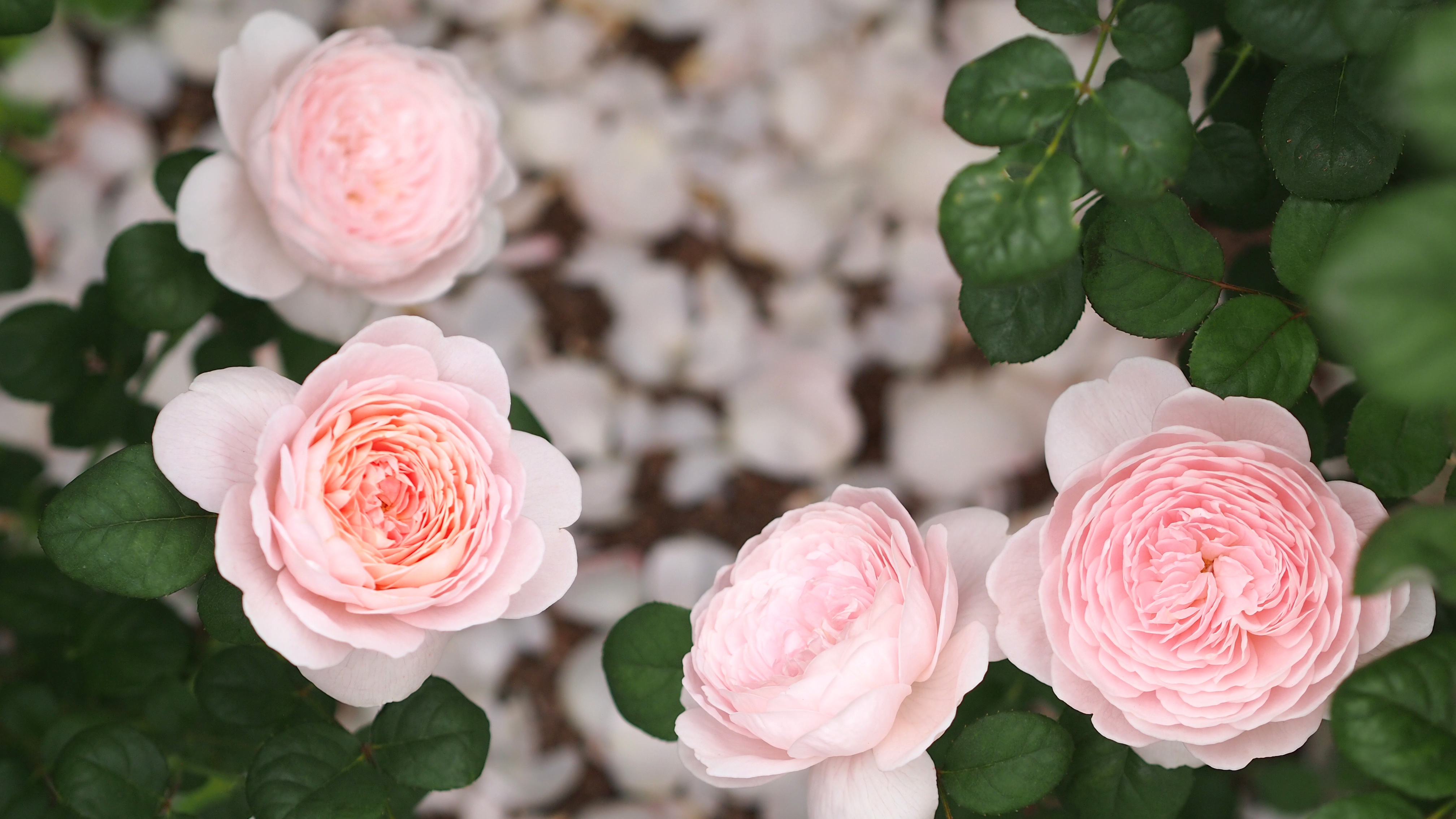 Rose, Queen of Sweeden, バラ, クイーン オブ スウェーデン, Shrub rose シュラブ United Kingdom イギリス Austin 2004